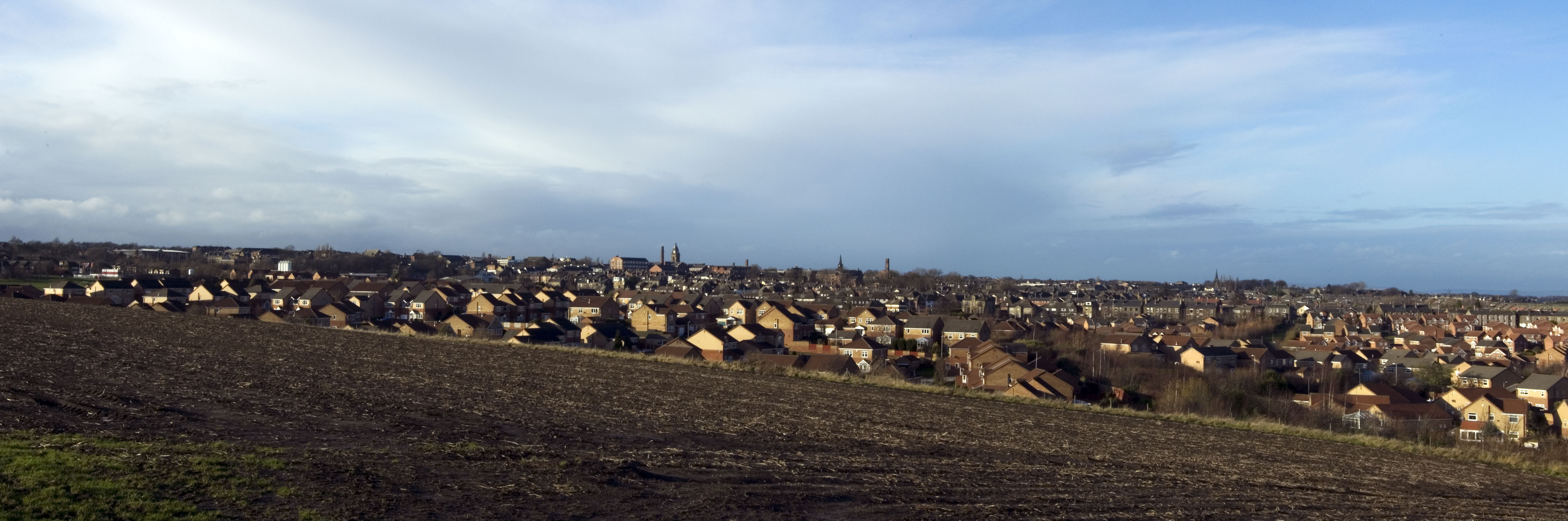 Morley panorama, West Yorkshire